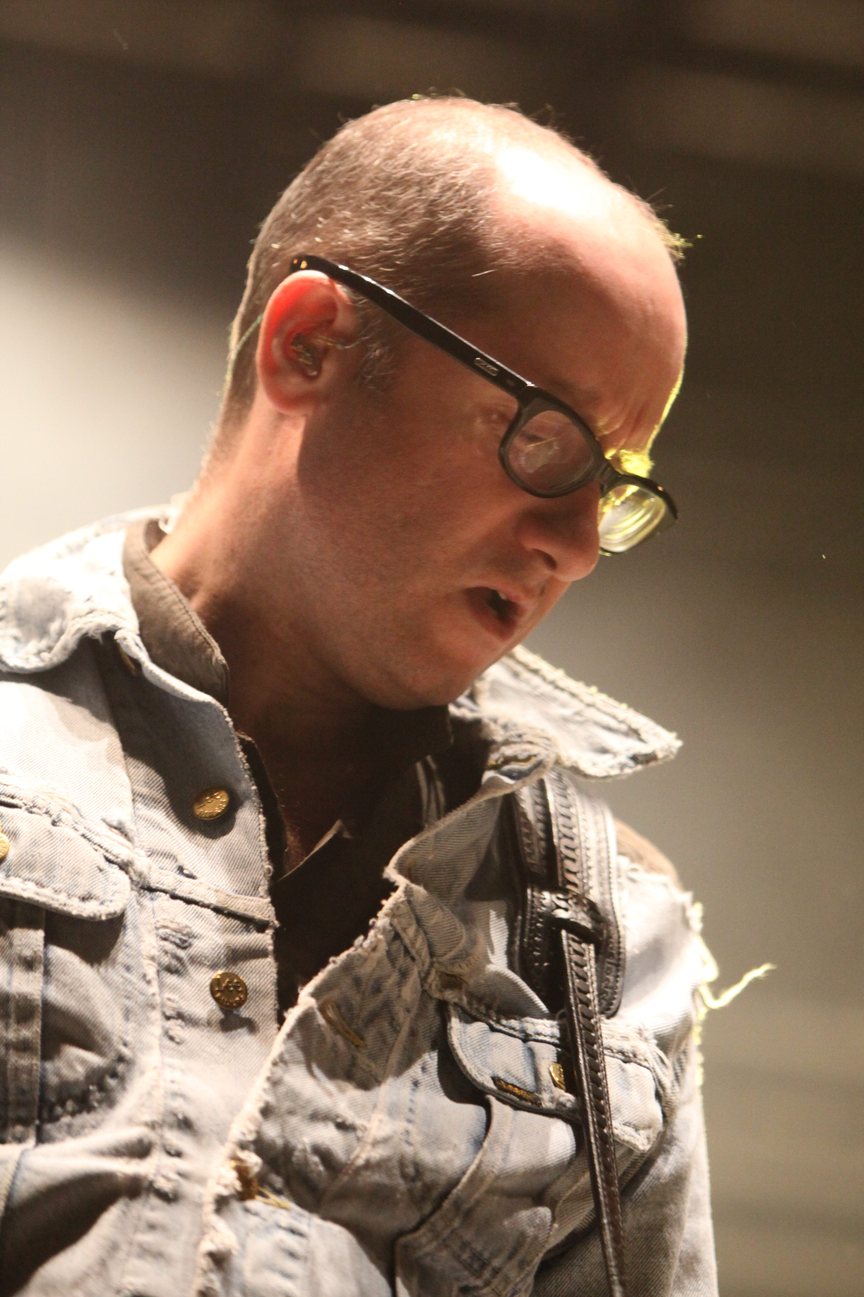 Philippe Almosnino (Les Wampas) at Balelec 2011